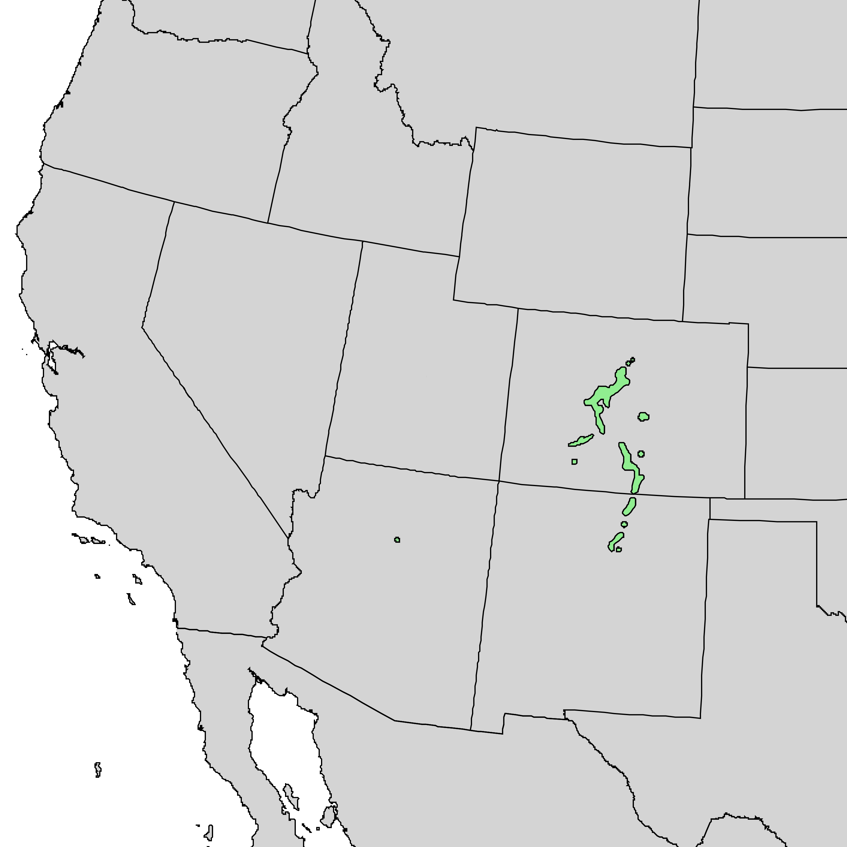 Natural distribution map for Pinus aristata